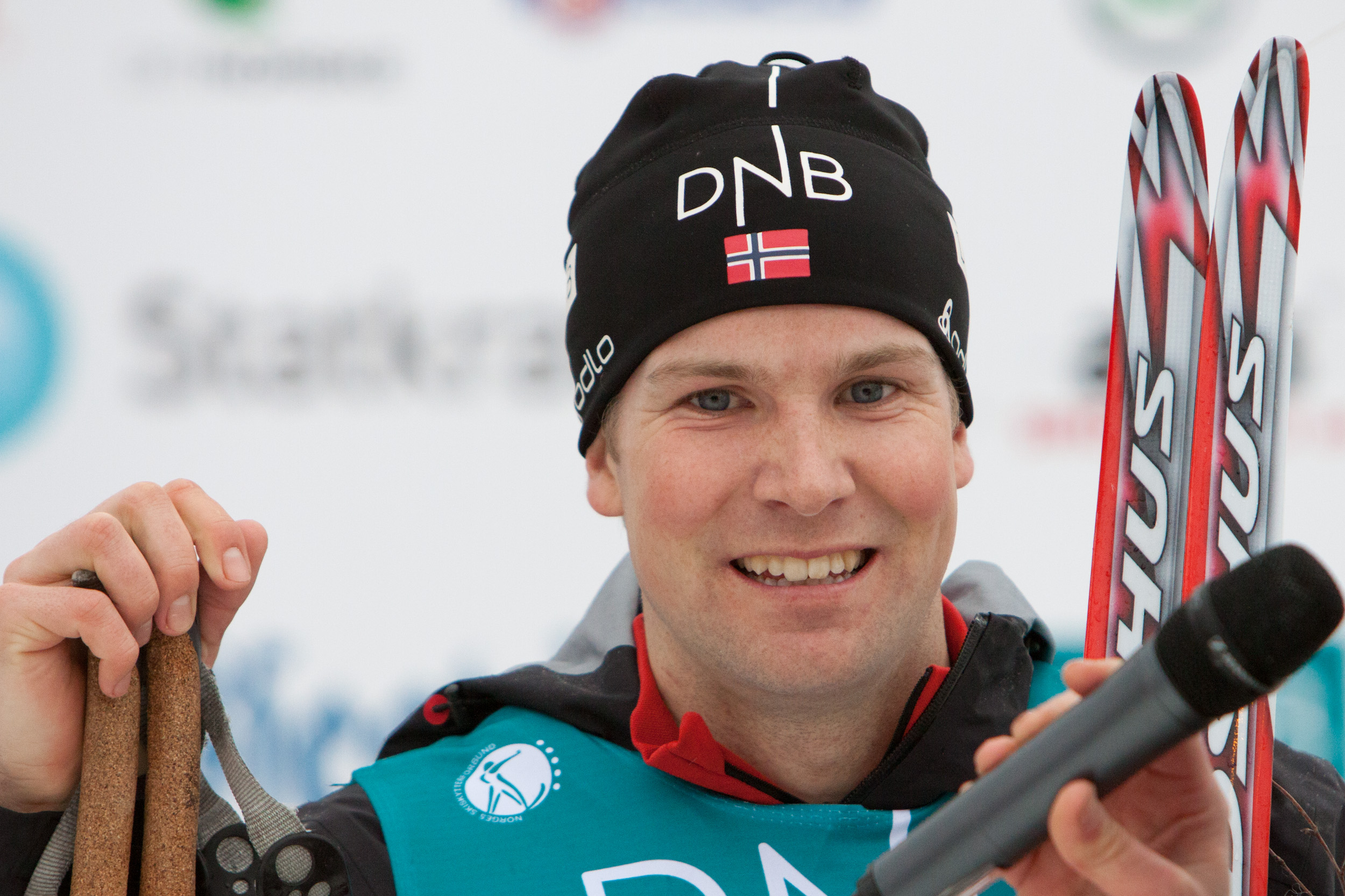 Being interviewed at the Norwegian championship after winning the the mass start, men's biathlon, 24 March 2012. The license on this photo is Creative Commons (CC-BY-SA). If you use this picture, remember to give credit according to the license .